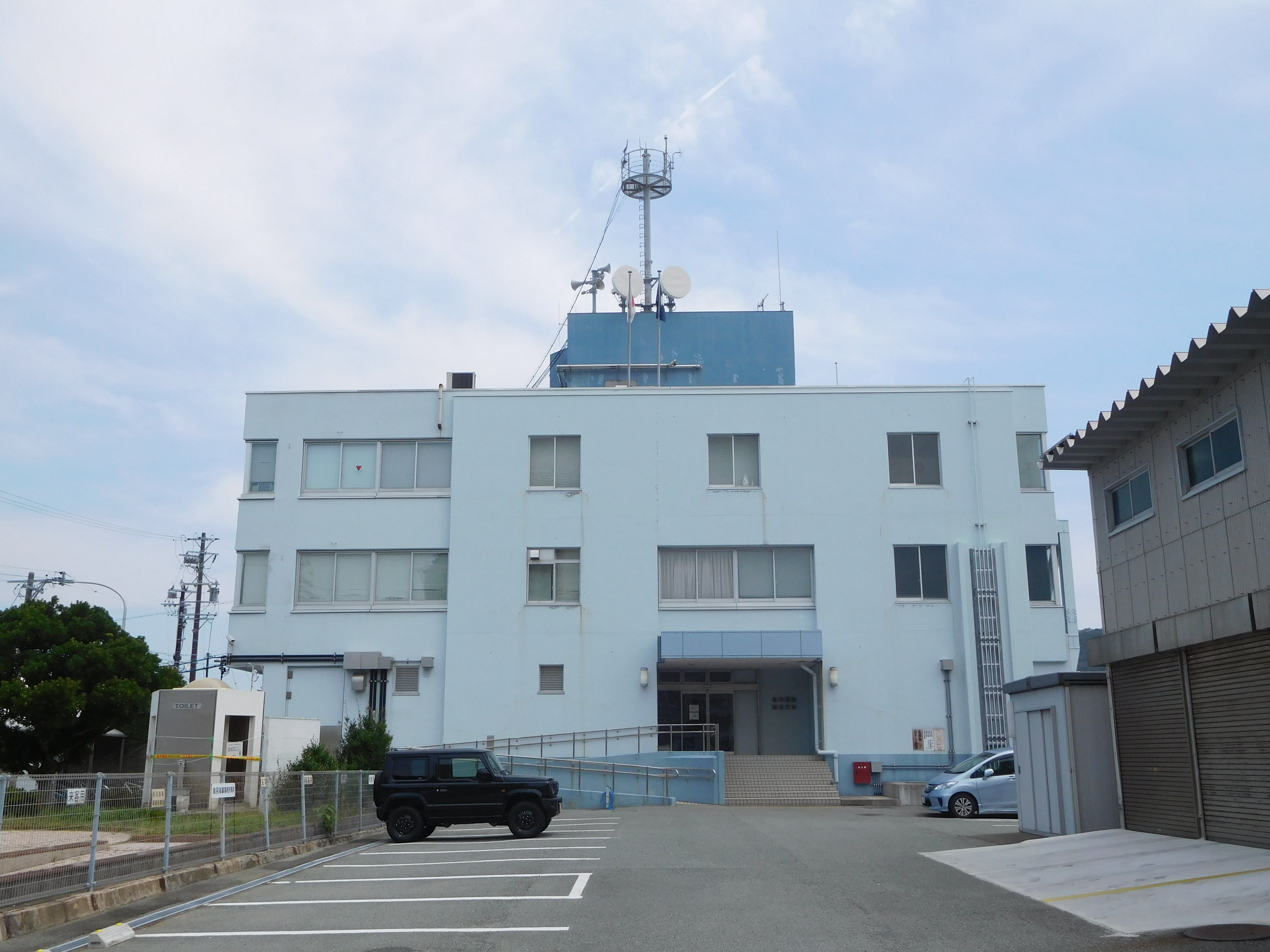 This is the Toba Transport General Building, which is located in Toba, Mie, Japan.